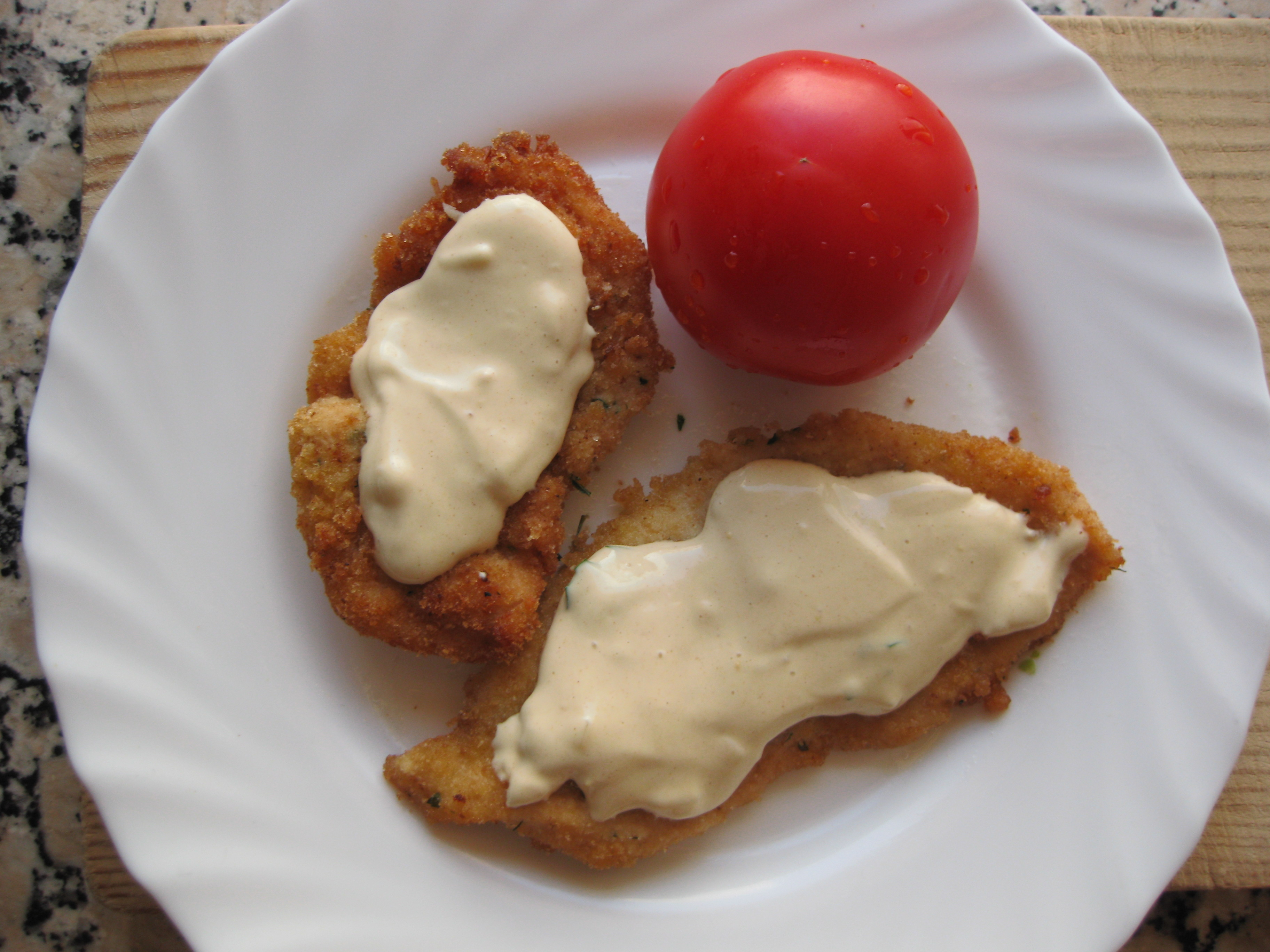 Chicken steaks with tatar sauce and tomatoes.